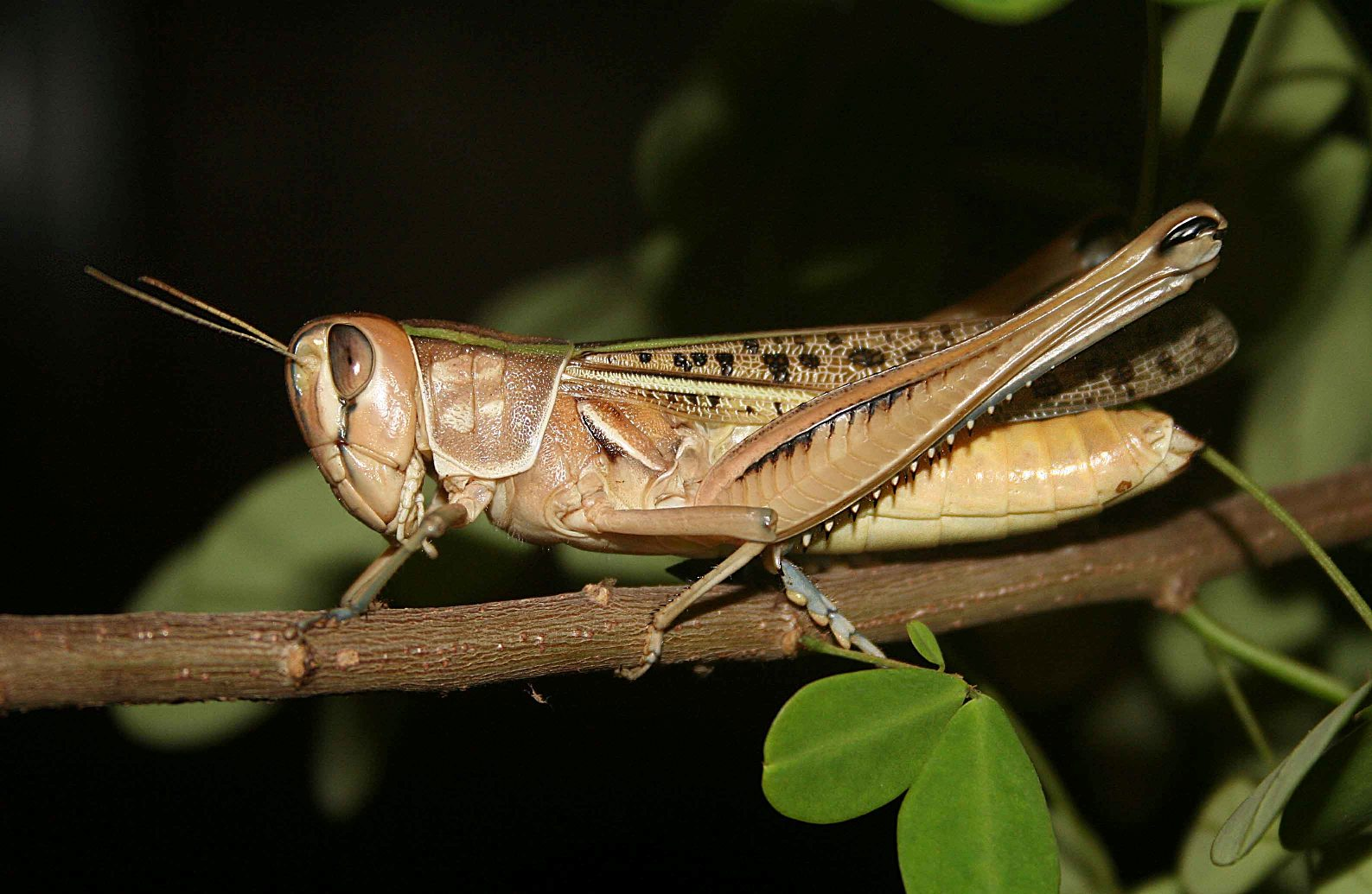 Female Cataloipus cymbiferus photographed in Dakar, Senegal.